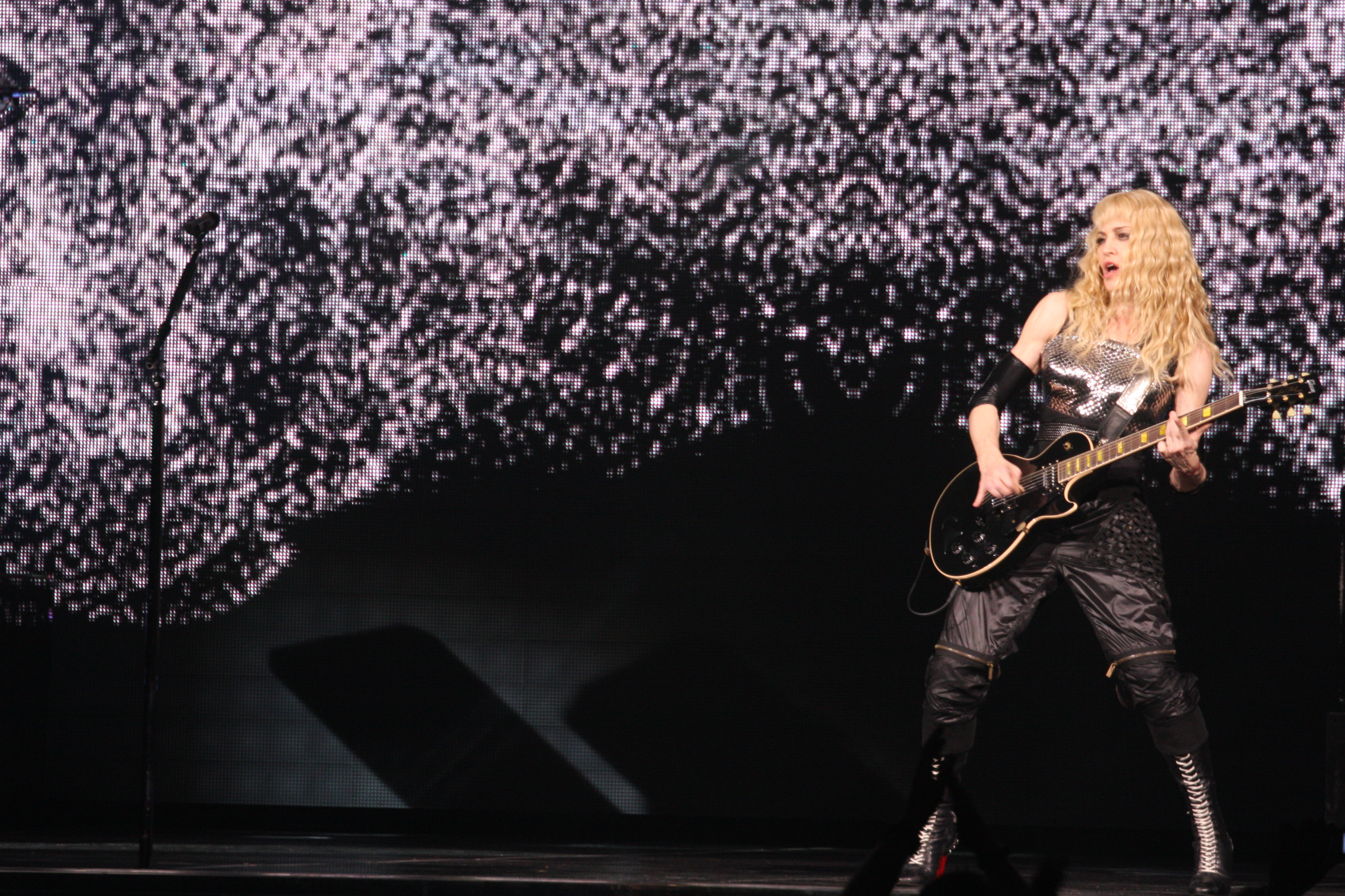 Hung Up Sticky & Sweet Tour 2008